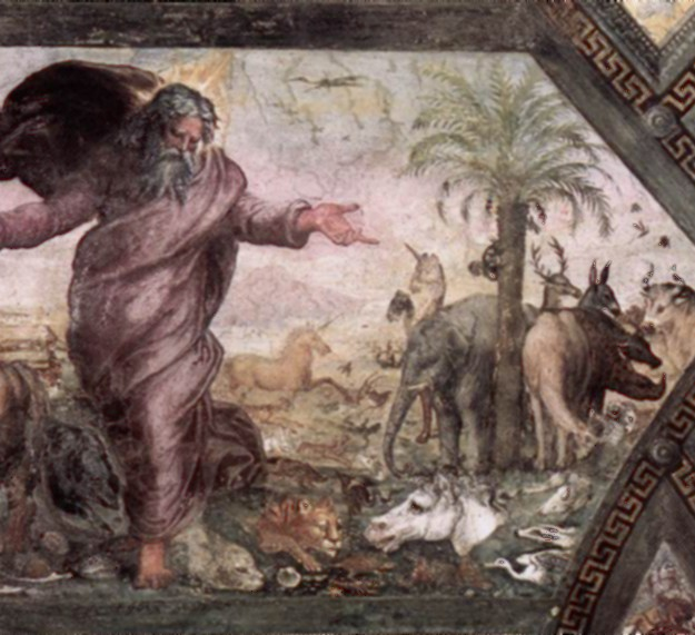 Raffaello Sanzio, The Creation of the Animals (Detail), 1518 – 19, fresco, Loggia of Raphael on the second floor, Vatican Museums, Vatican.